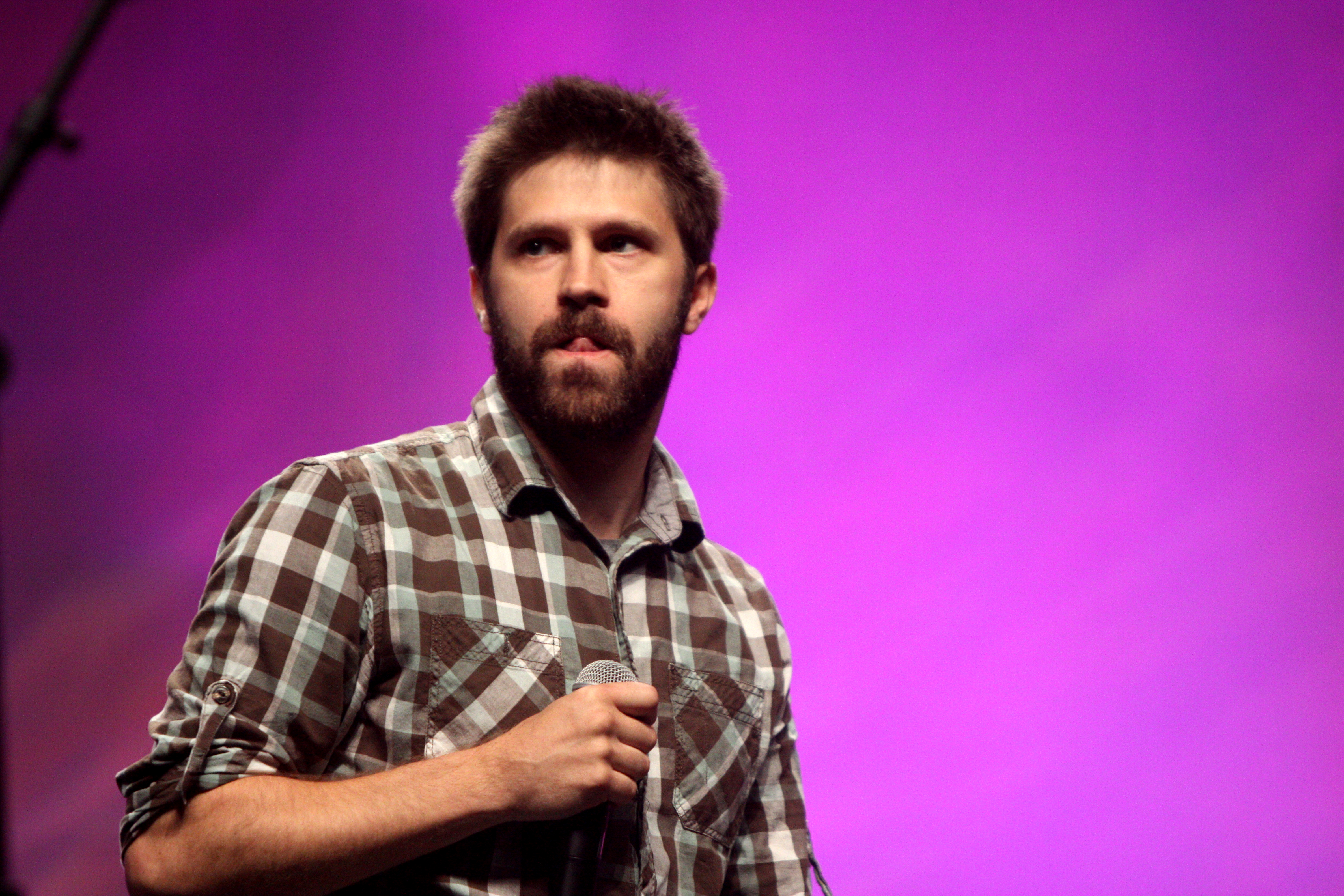 Joe Bereta speaking at VidCon 2012 at the Anaheim Convention Center in Anaheim, California.